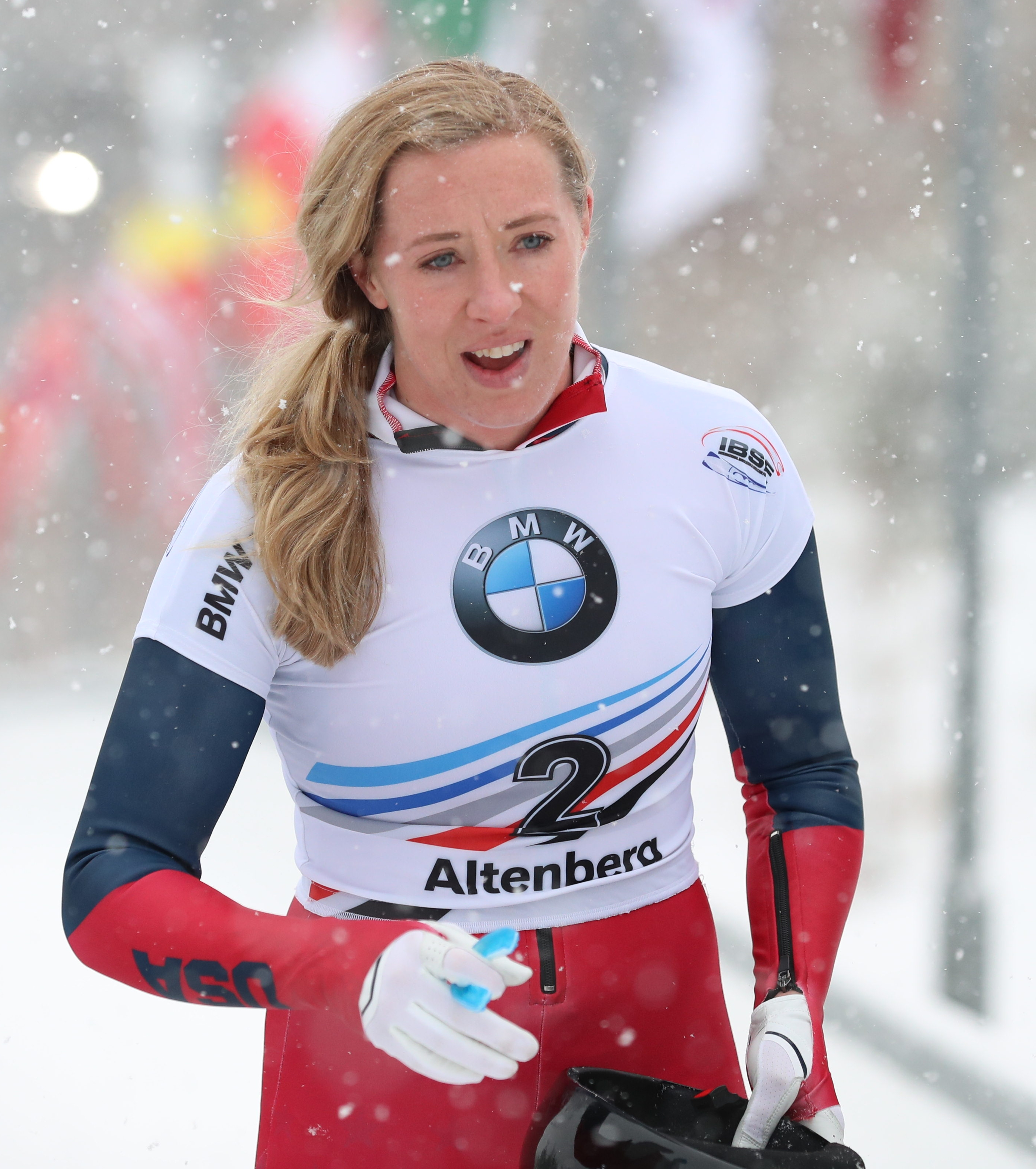 Women's World Cup race at the 2018/19 Skeleton World Cup in Altenberg